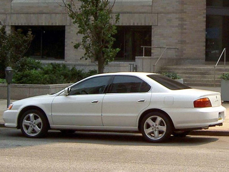 The second generation of Acura TL photographed in New York City